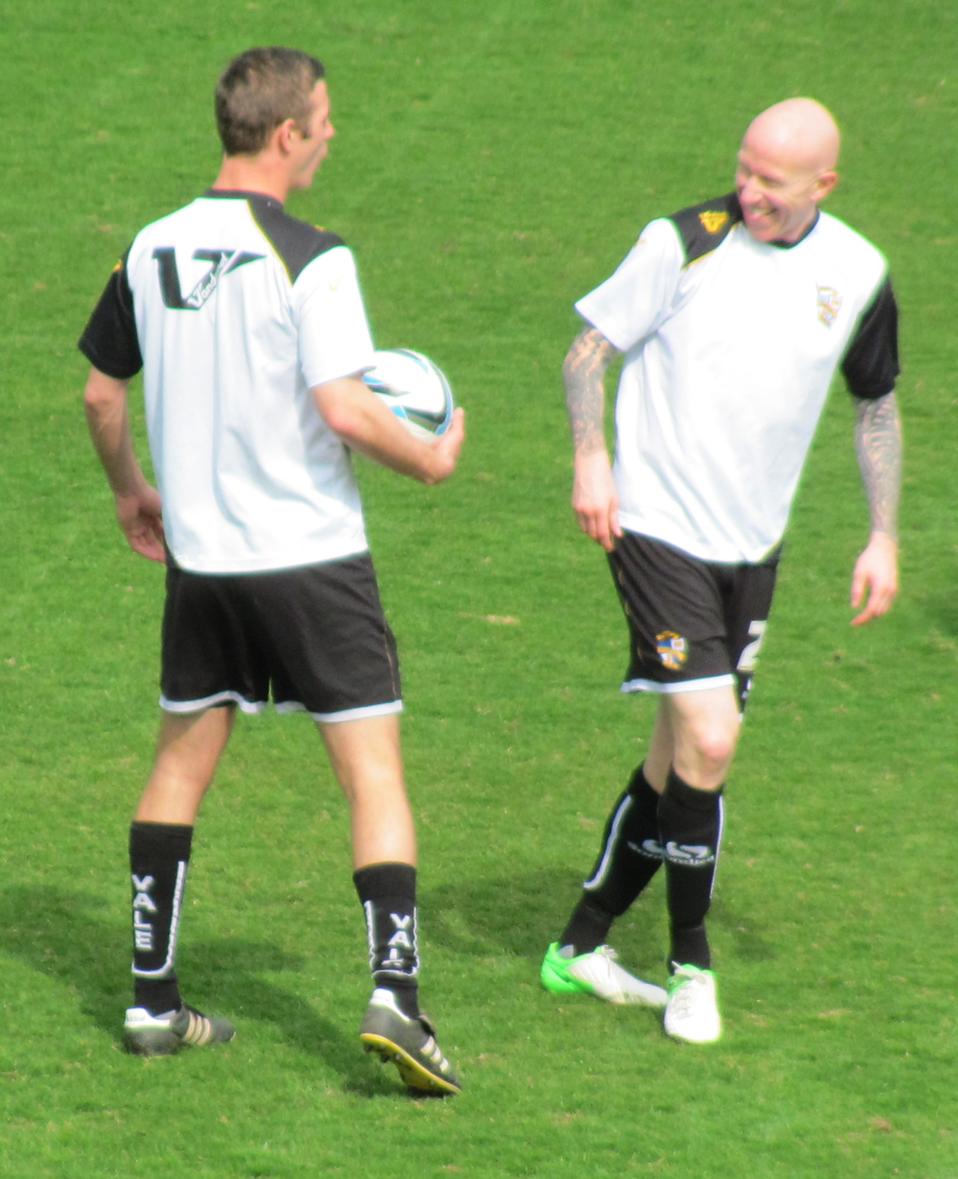 Pictured during the 2-2 draw between Port Vale and Northampton Town on 20 April 2013.